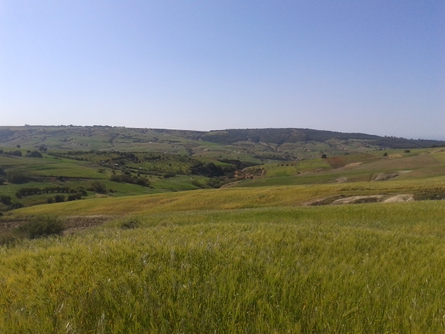 Algerian Plains - Wheat Fields